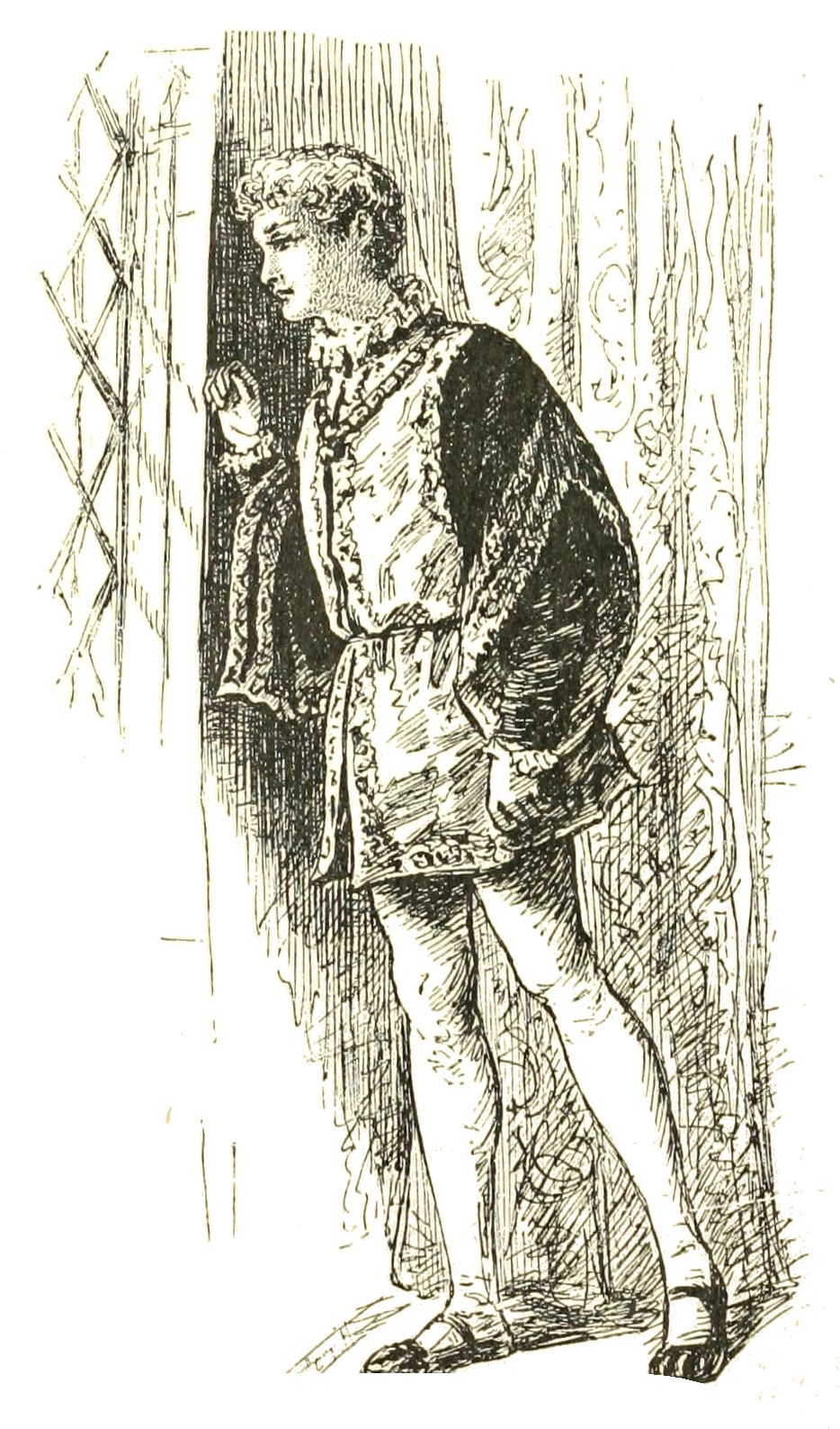 Illustrations de The Prince and The Pauper, 1882.